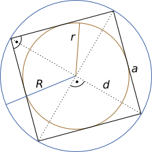 incircled and circumcircled square